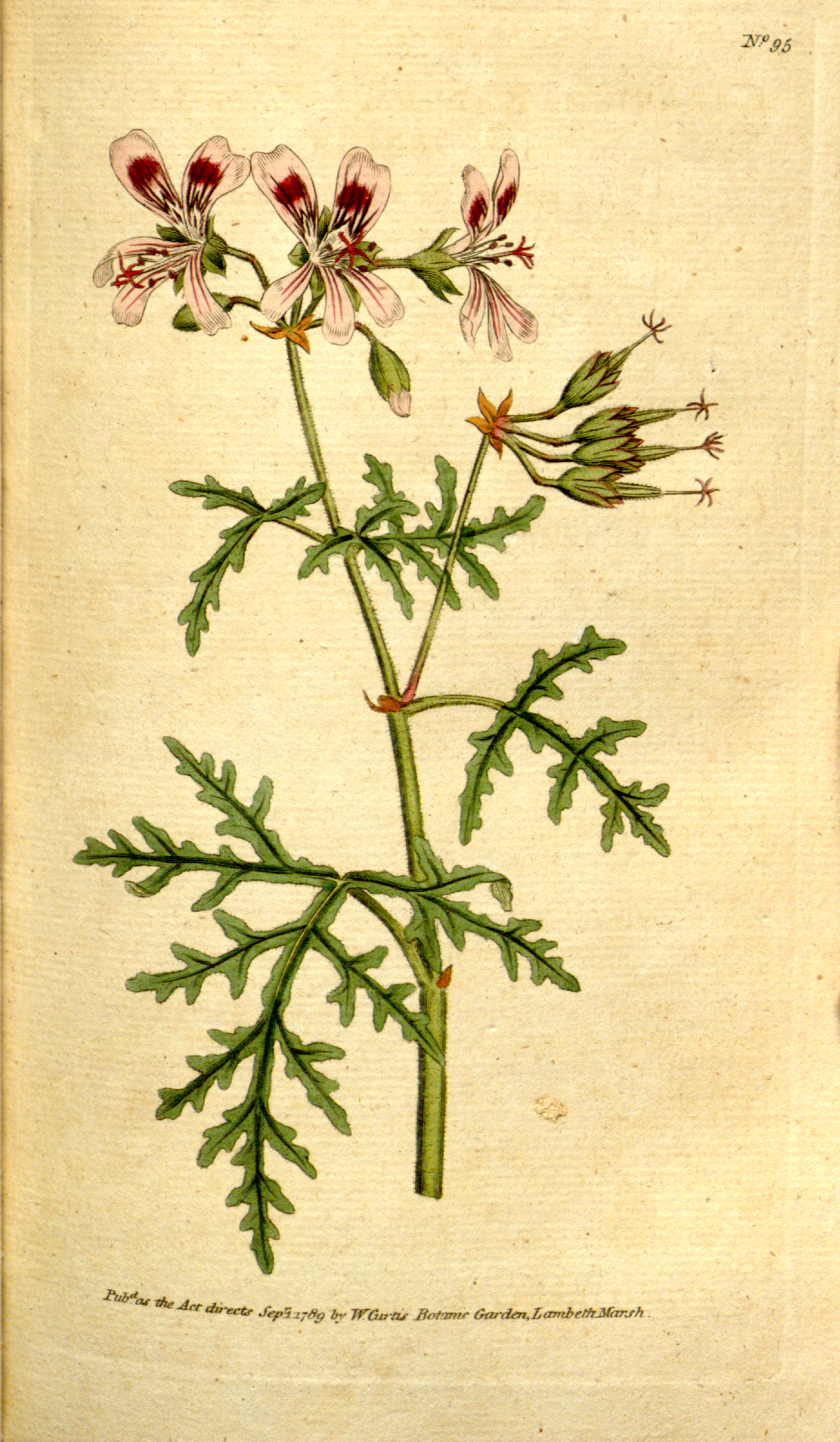 Geranium radula Cav. (= Pelargonium radens H.E.Moore), Rasp-Leav'd Geranium This is a plate 95 from The Botanical Magazine, Volume 3.